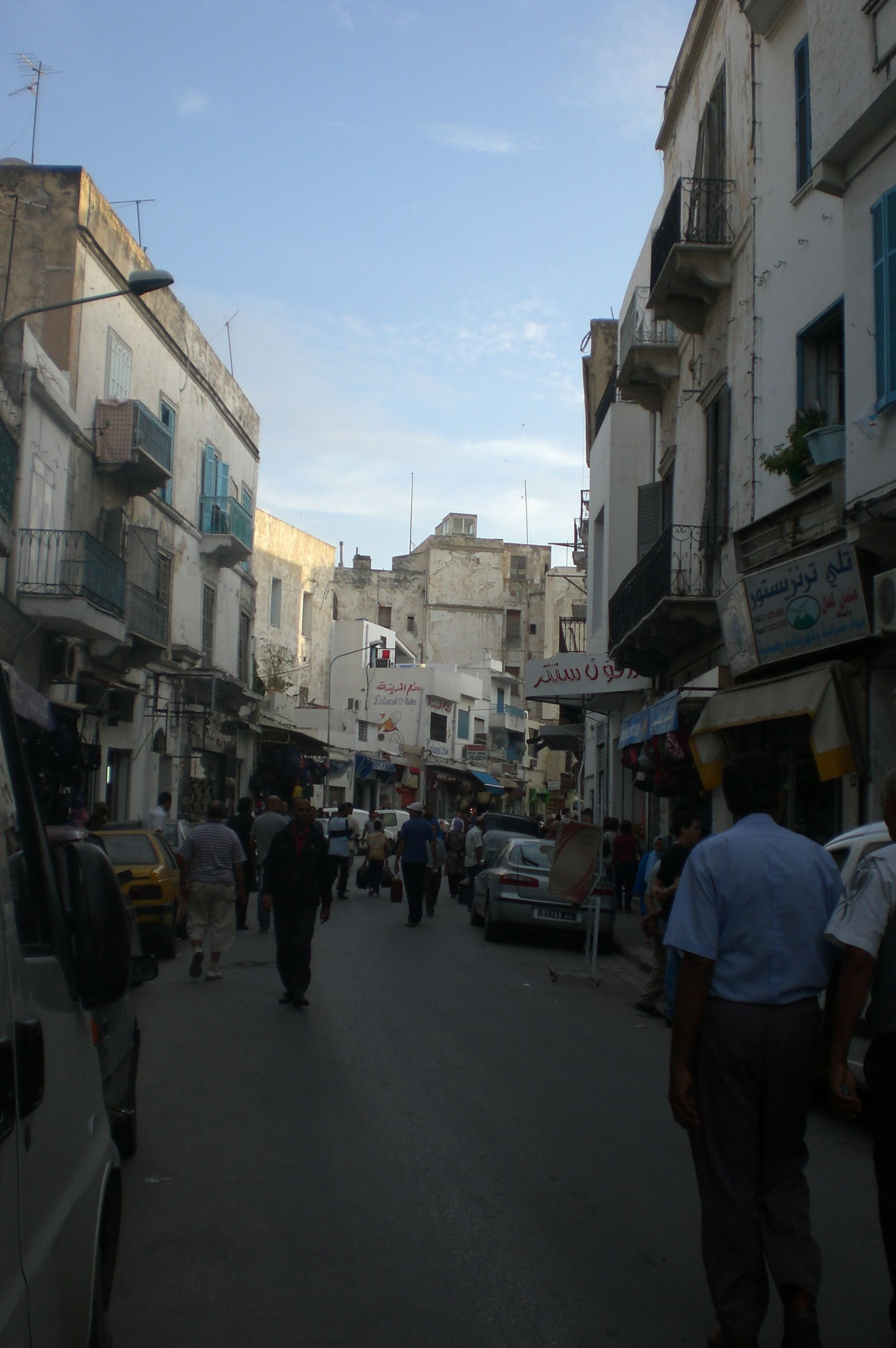 Rue Monji Slim in Tunis